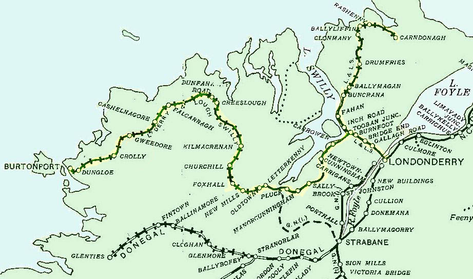 Based on Image:Map Rail Ireland Viceregal Commission 1906.jpg